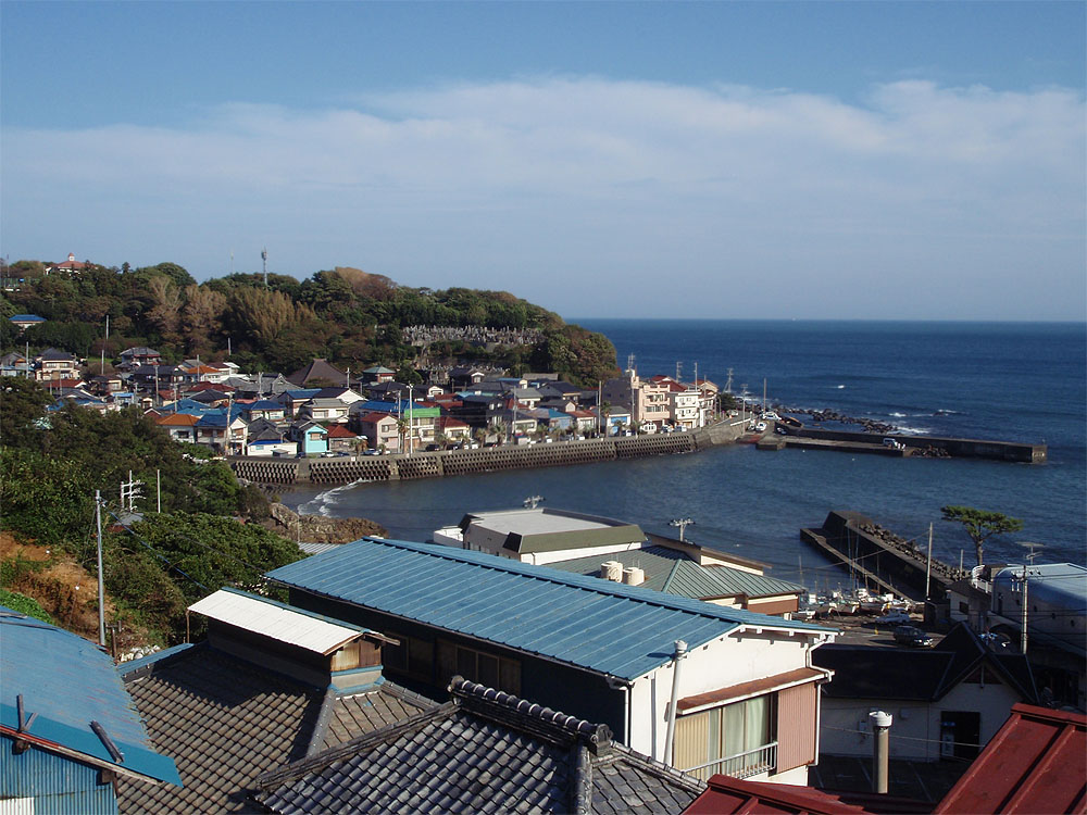 Midaka settlement in Kawazu, Shizuoka Prefecture, Japan.